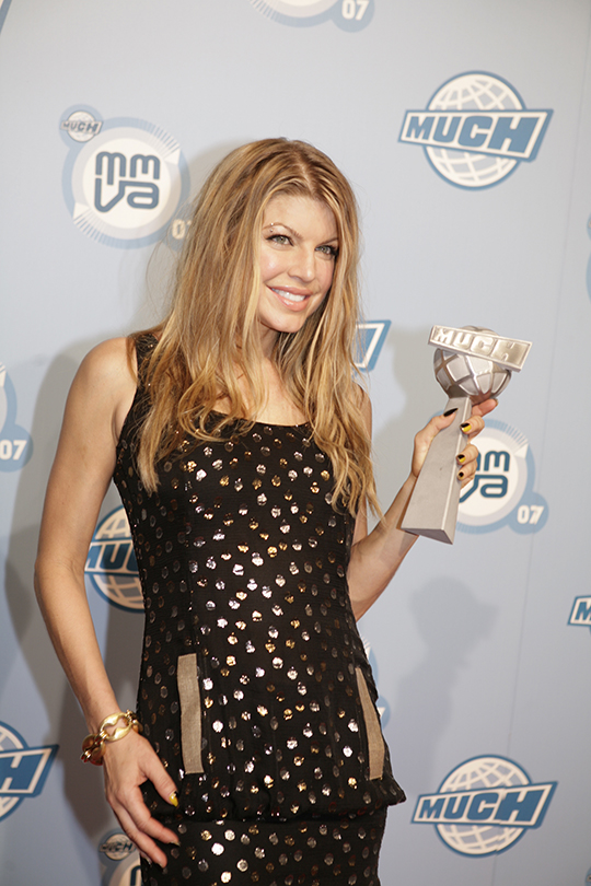 Fergie was an attendee at the 2007 MuchMusic Video Awards, held the night of Sunday, June 17, 2007 in Toronto, Ontario, Canada.